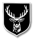 Symbol of the 31. SS-Freiwilligen-Grenadier-Division.